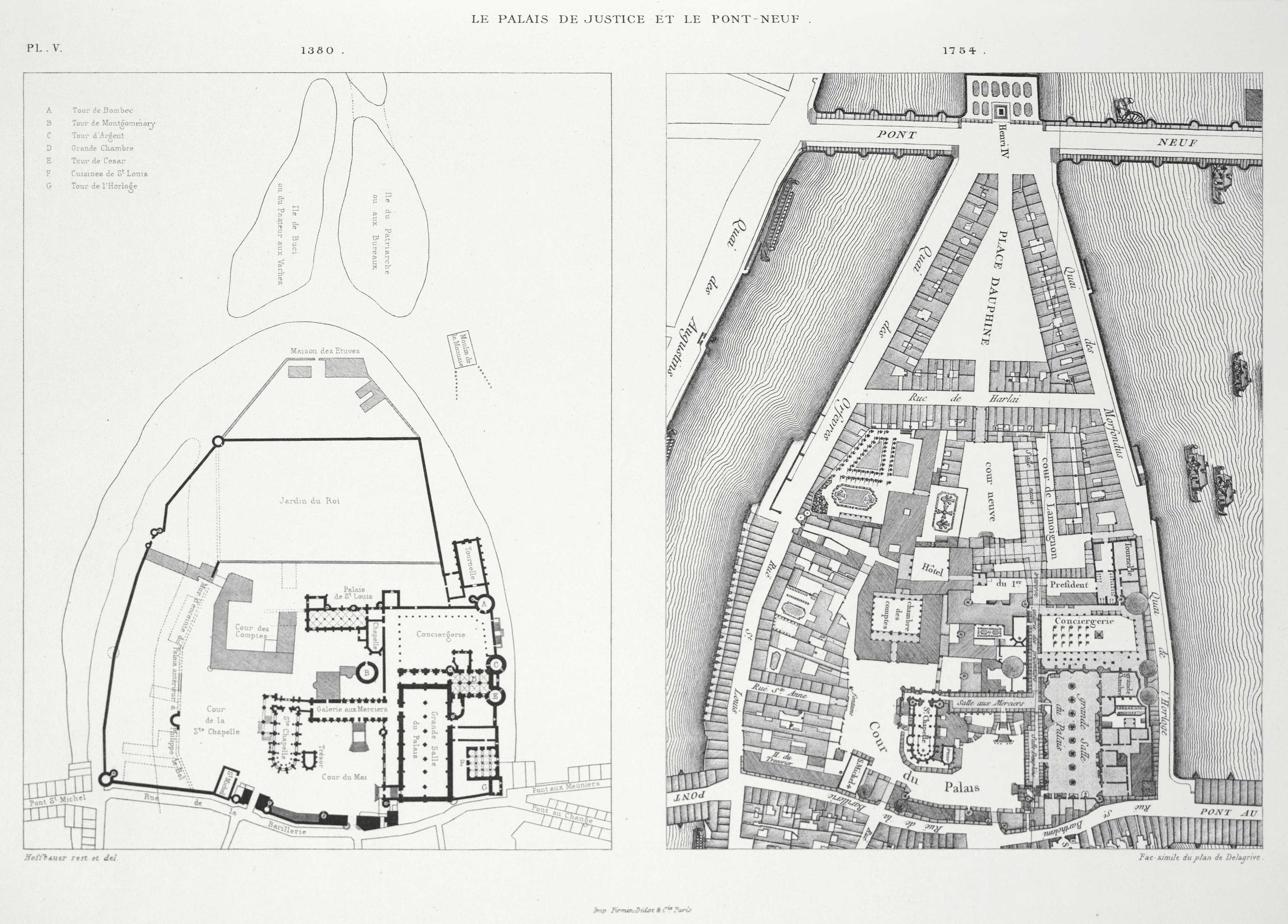 Plans of the Ile de la cité from the Palais de Justice to the Place Dauphine. There are two views: the one on the left shows the area in 1380; the one on the right shows the area in 1754. The overlay also shows the same area; on the left in 1878, on the right in 1835.